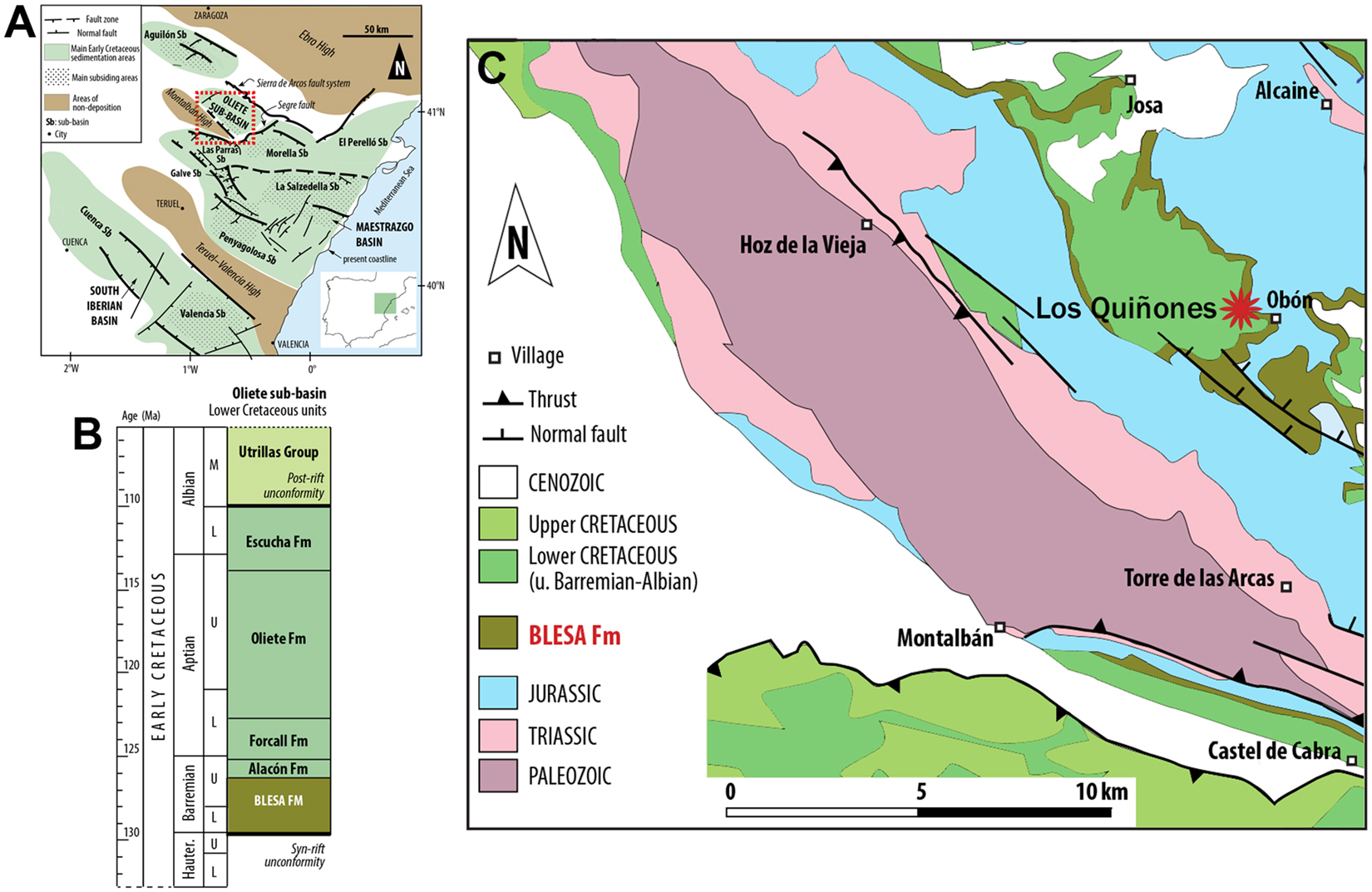 Geographical and geological location of the Los Quiñones site in the Blesa Formation. (A) Geological map of the Iberian Peninsula; (B) Location of the paleogeographical sub-basins within the Maestrazgo Basin; and (C) location of the Los Quiñones site close to the village of Obón (modified from14).